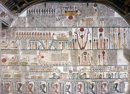 Book of the Earth, part A; bound and decapitated enemies. Scene from tomb of Ramses V./VI. (KV9, Burial Chamber J, right wall)